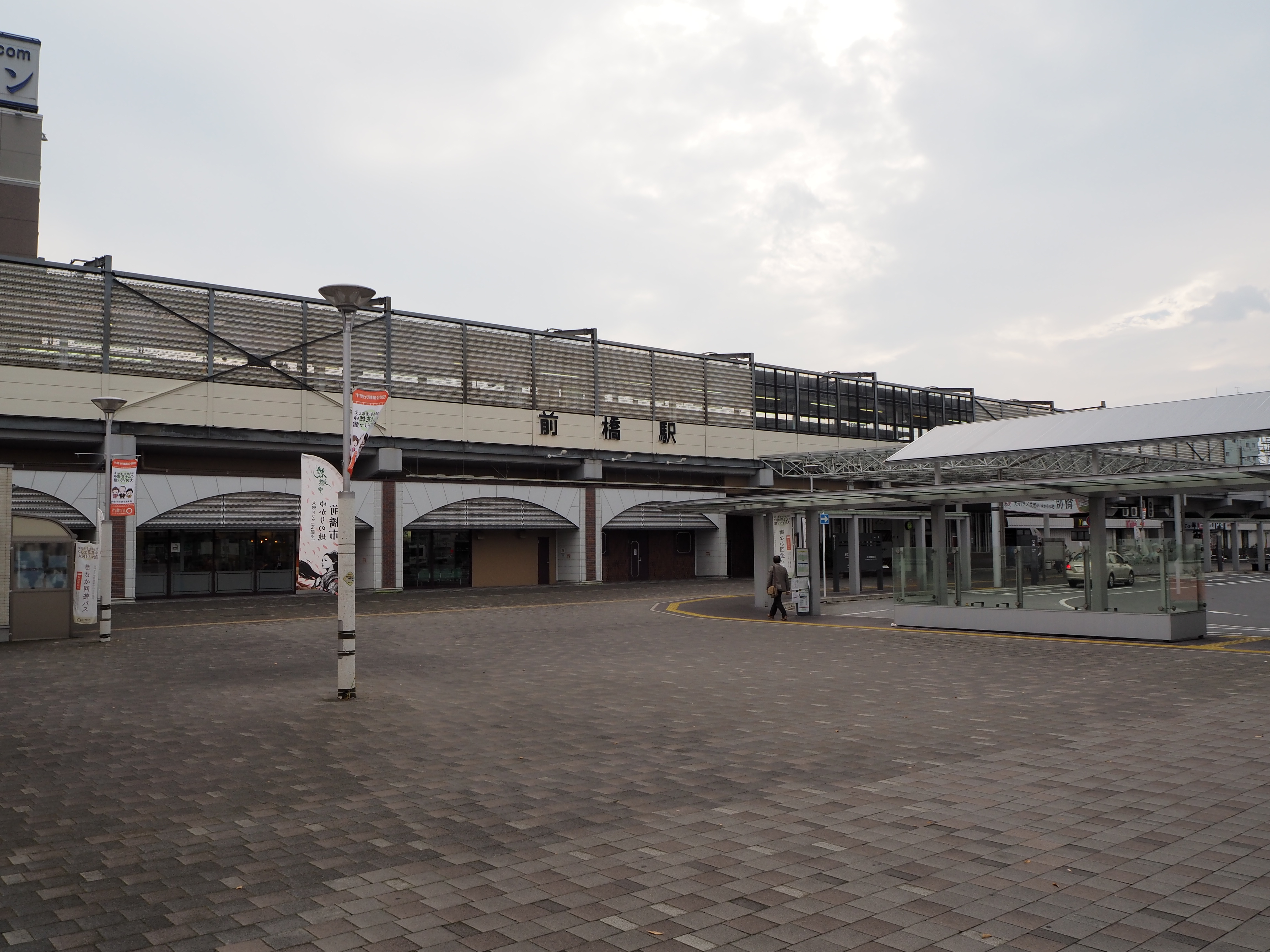 North Entrance of Maebashi Station